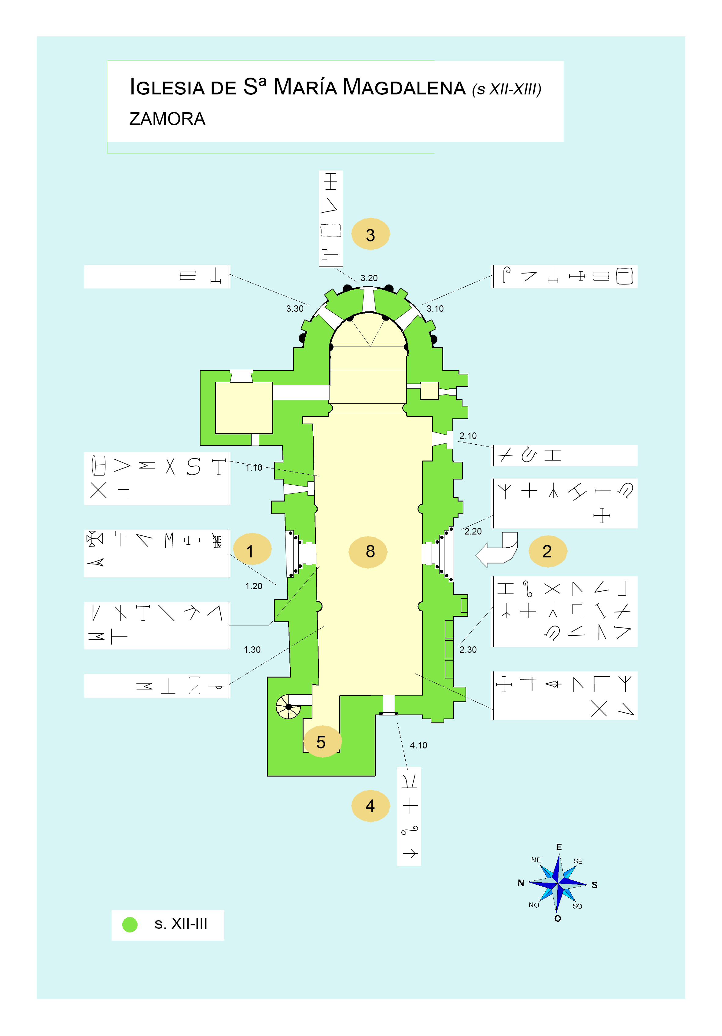 Santa María Magdalena church, Zamora, Spain, romanesque s. XII-XIII. Plan appro. and stonecutter mark catalog